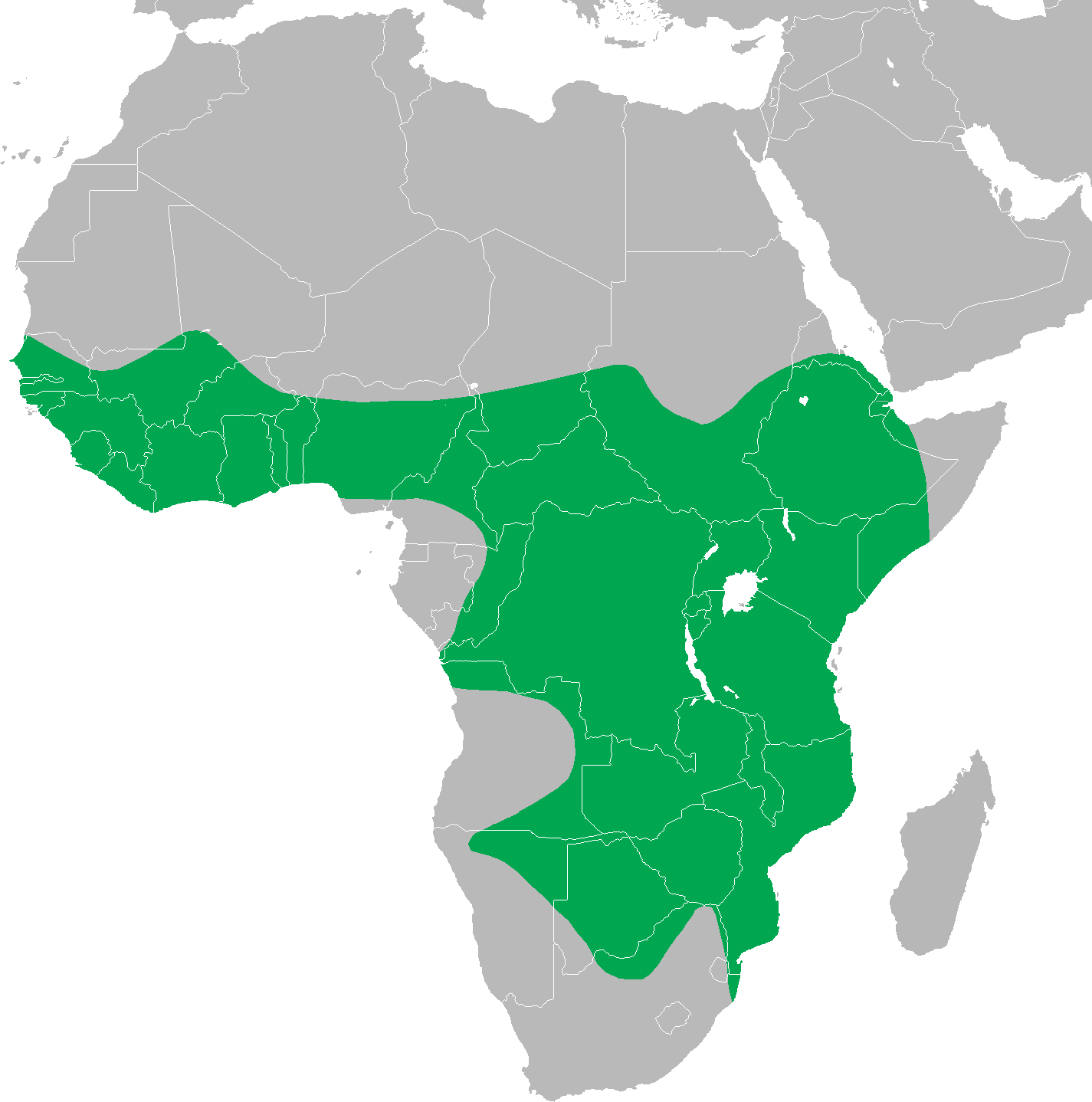 Marabou Stork (Leptoptilos crumeniferus) distribution map. Based on data from Elliott, A. (1992). "Family Ciconidae (Storks)". In Josep del Hoyo, Andrew Elliott & Jordi Sargatal. Handbook of the Birds of the World, Volume 1: Ostrich to Ducks. Barcelona: Lynx Edicions. p. 465. ISBN 84-87334-10-5